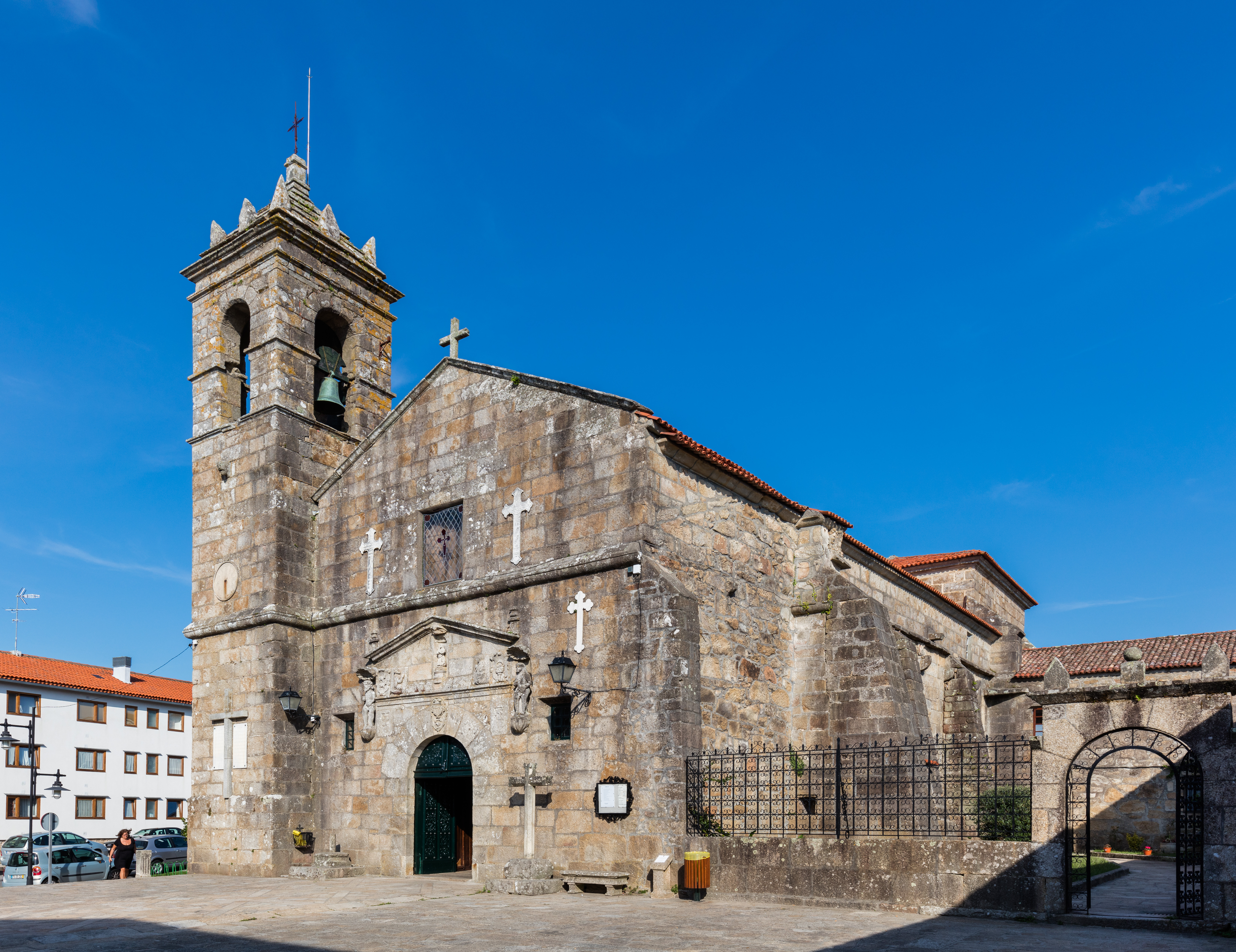 St Franciscus convent, Cambados, Pontevedra, Galicia (Spain)